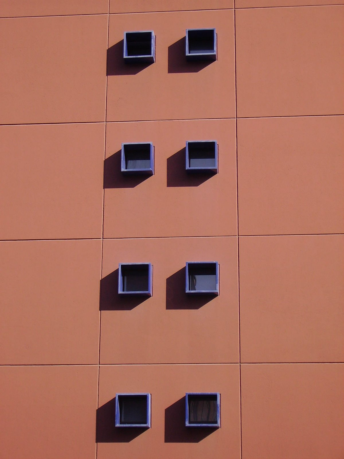 Housing building Parque Europa in Madrid (Spain).